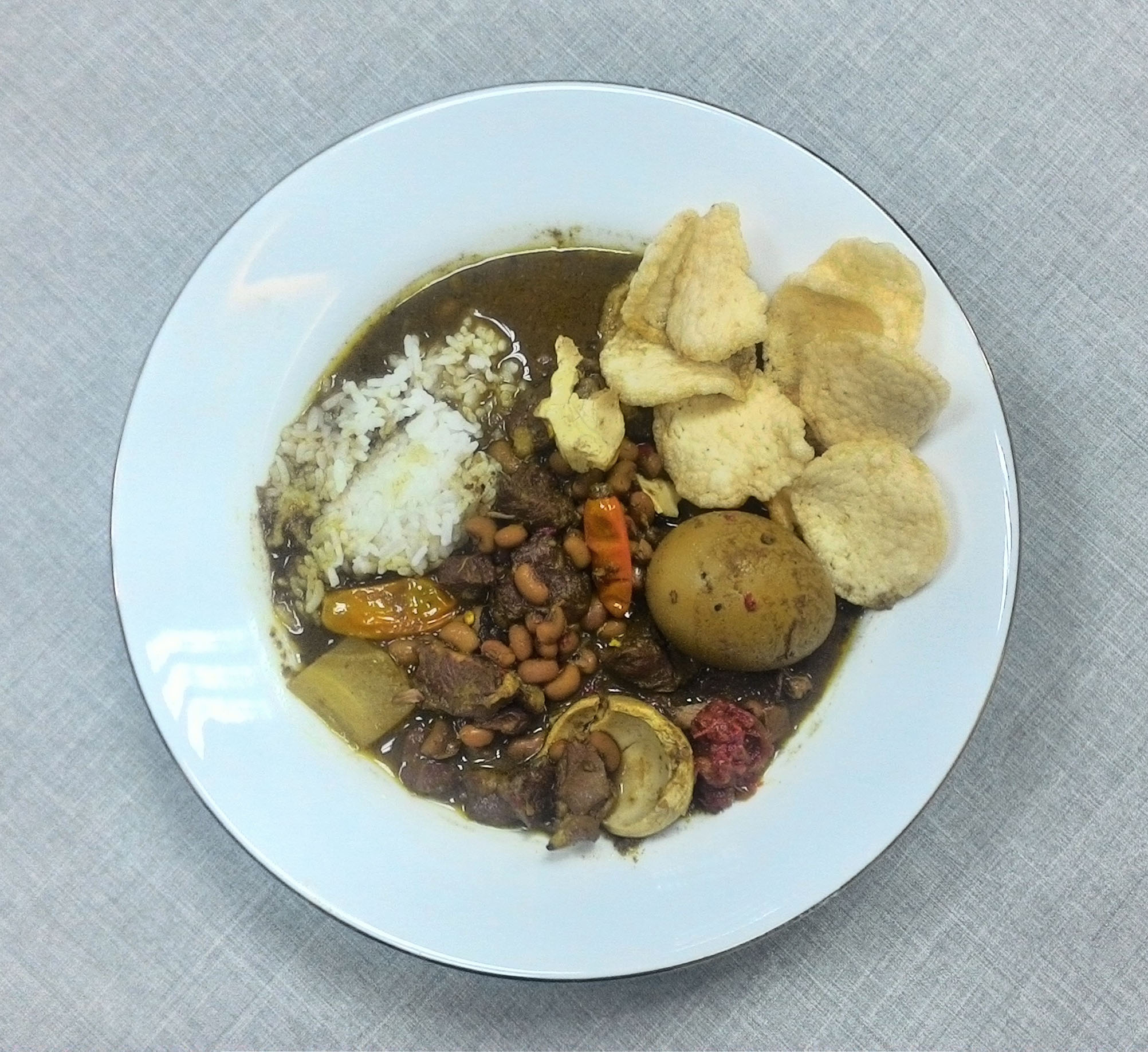 Nasi brongkos or brongkos with rice. Brongkos is Javanese spicy meat and beans stew, a specialty of Yogyakarta, Indonesia. Here the brongkos stew is served with egg and prawn cracker.